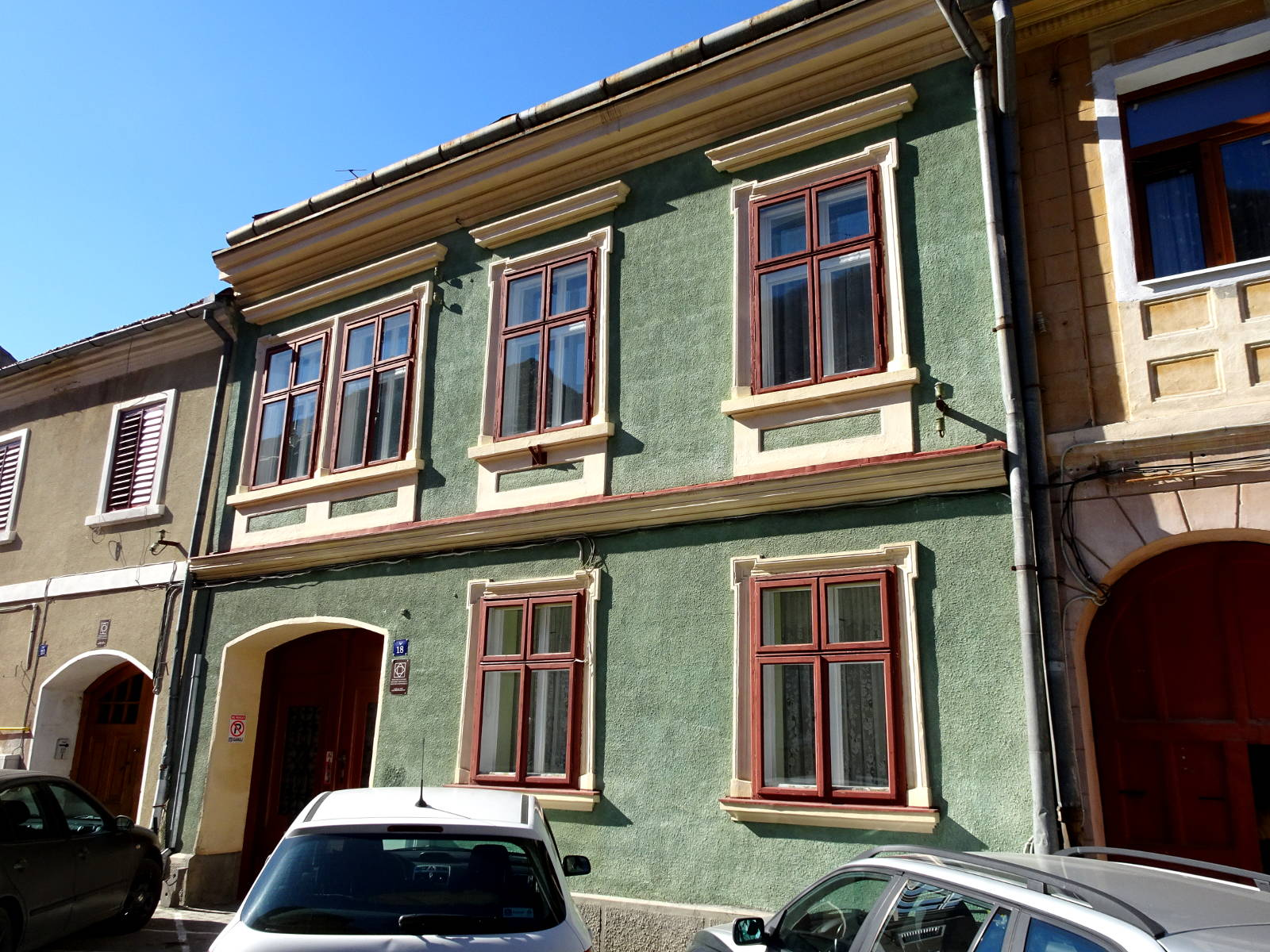 Strada Cerbului in Brasov, house number 18, historic monument